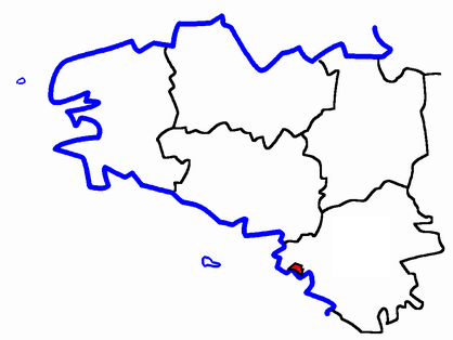 Map for localisazion of cantons of Pays-de-Loire, region in France